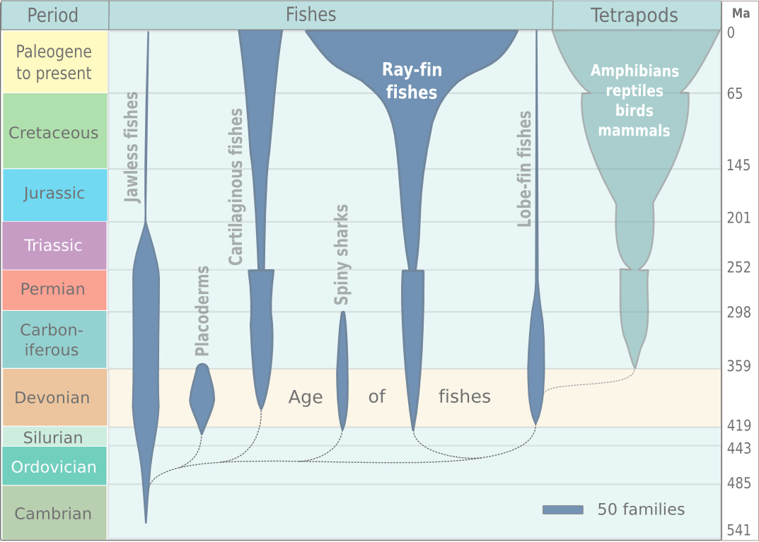 Evolution of fishes from the Cambrian to the present as a spindle diagram. The width of the spindles are proportional to the number of families as a rough estimate of diversity. The diagram is based on Benton, M. J. (2005) Vertebrate Palaeontology, Blackwell, 3rd edition, Fig 2.10 on page 35 and Fig 3.25 on page 73, as well as this source, and this Wikimedia Commons file.